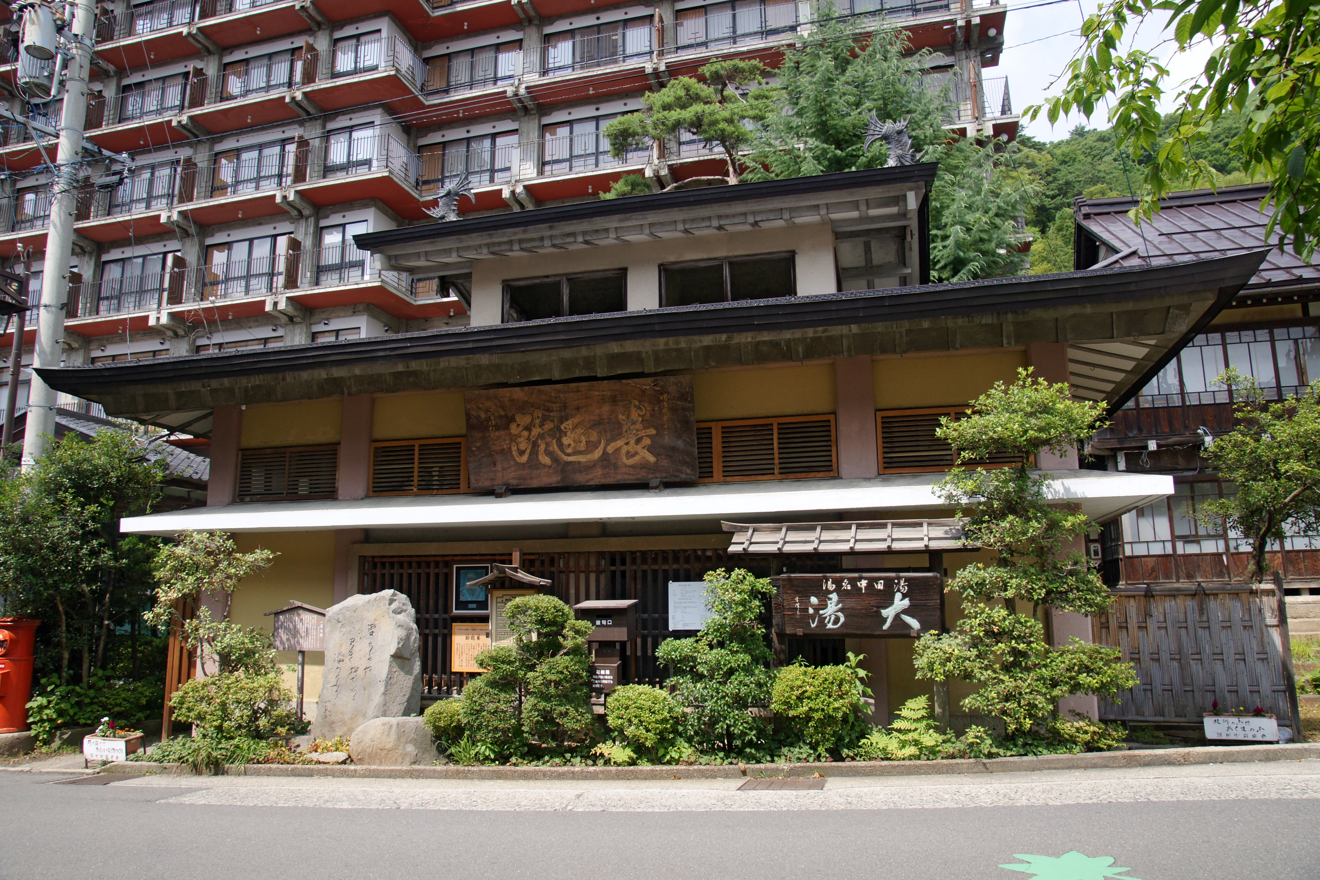 Yudanaka Onsen ,Yamanouchi, Nagano prefecture, Japan